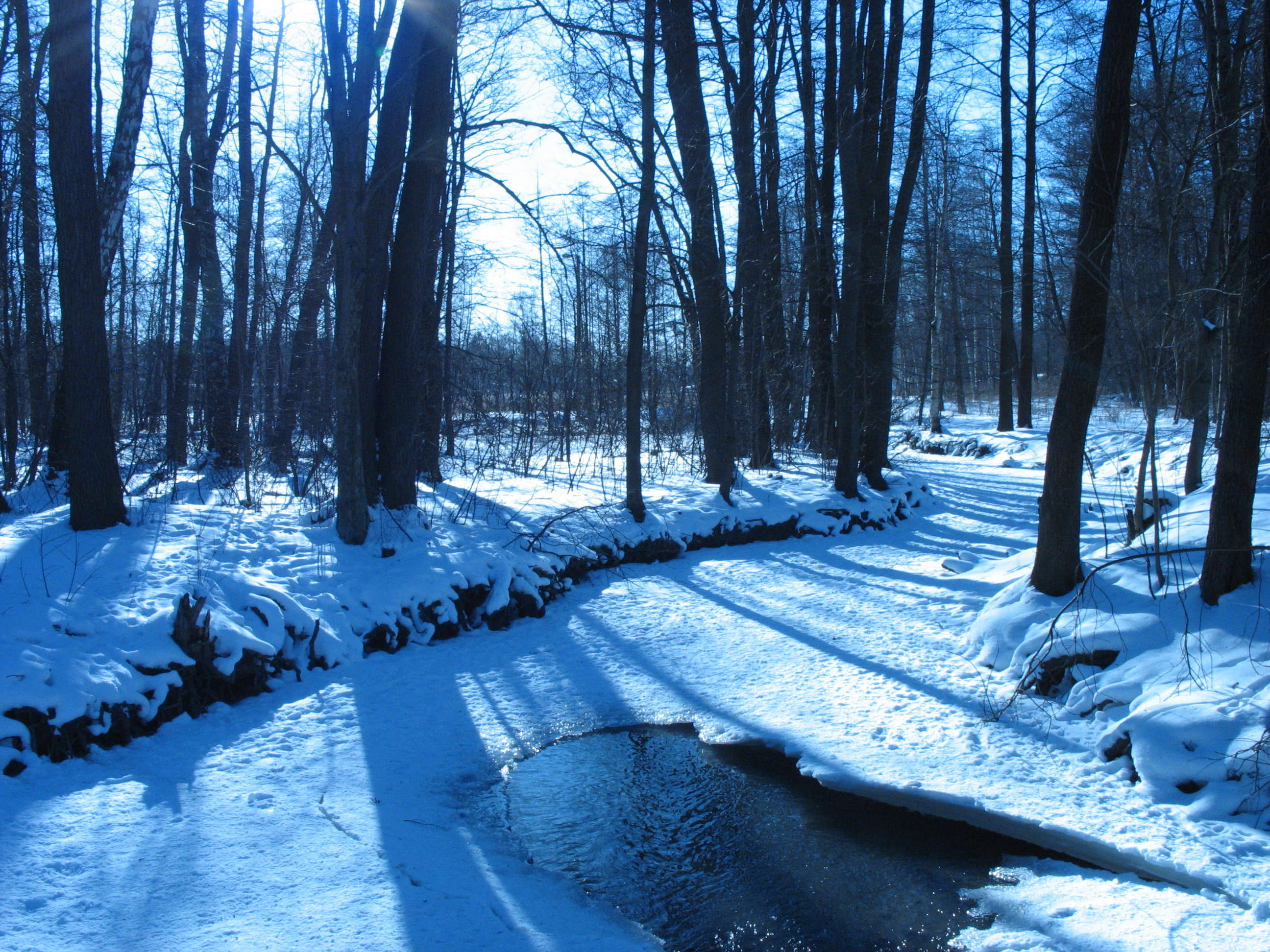 A winter shot of a stream in Marjaniemi, Helsinki, Finland. Taken in February, 2006.